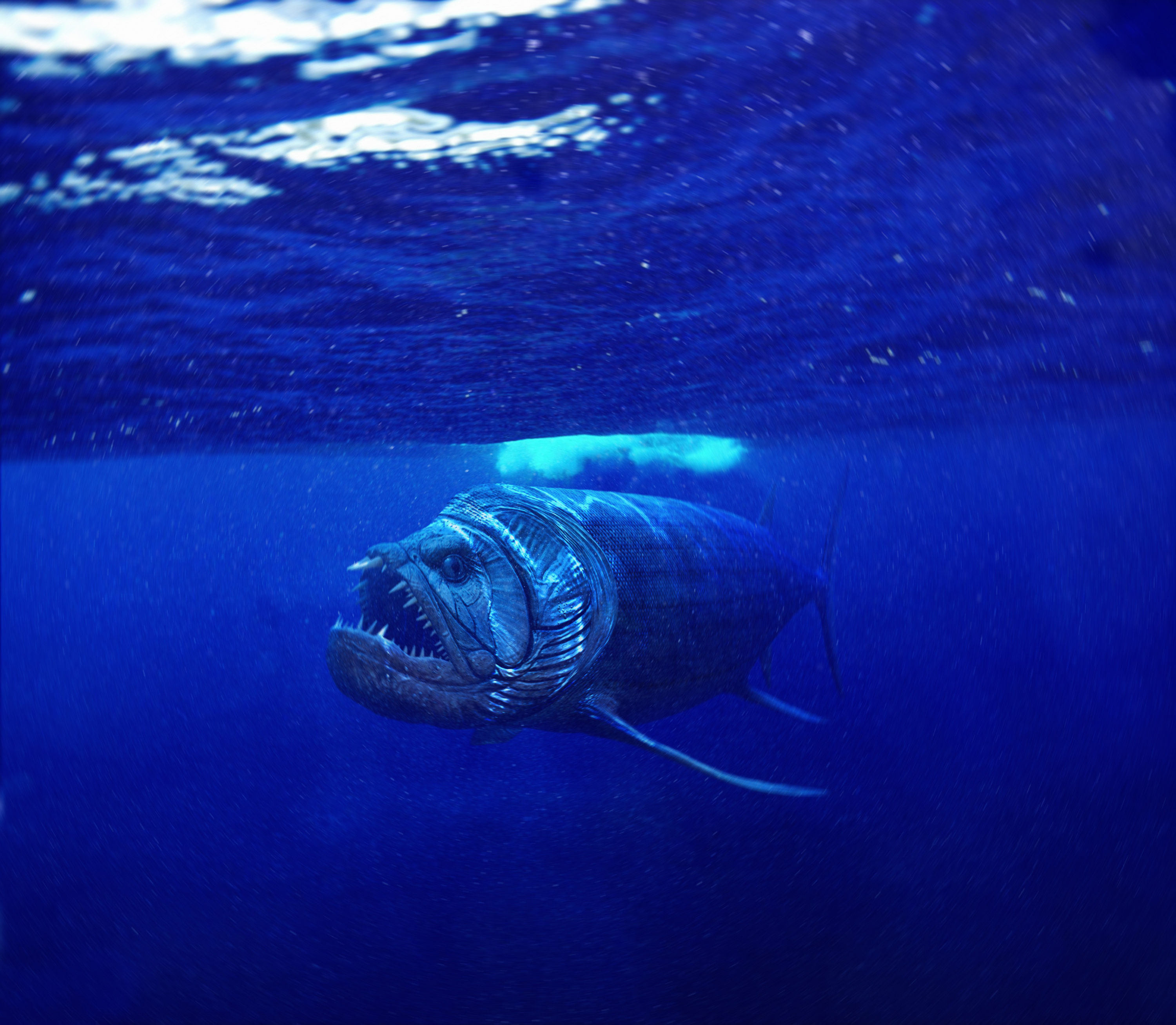 Life restoration of Xiphactinus